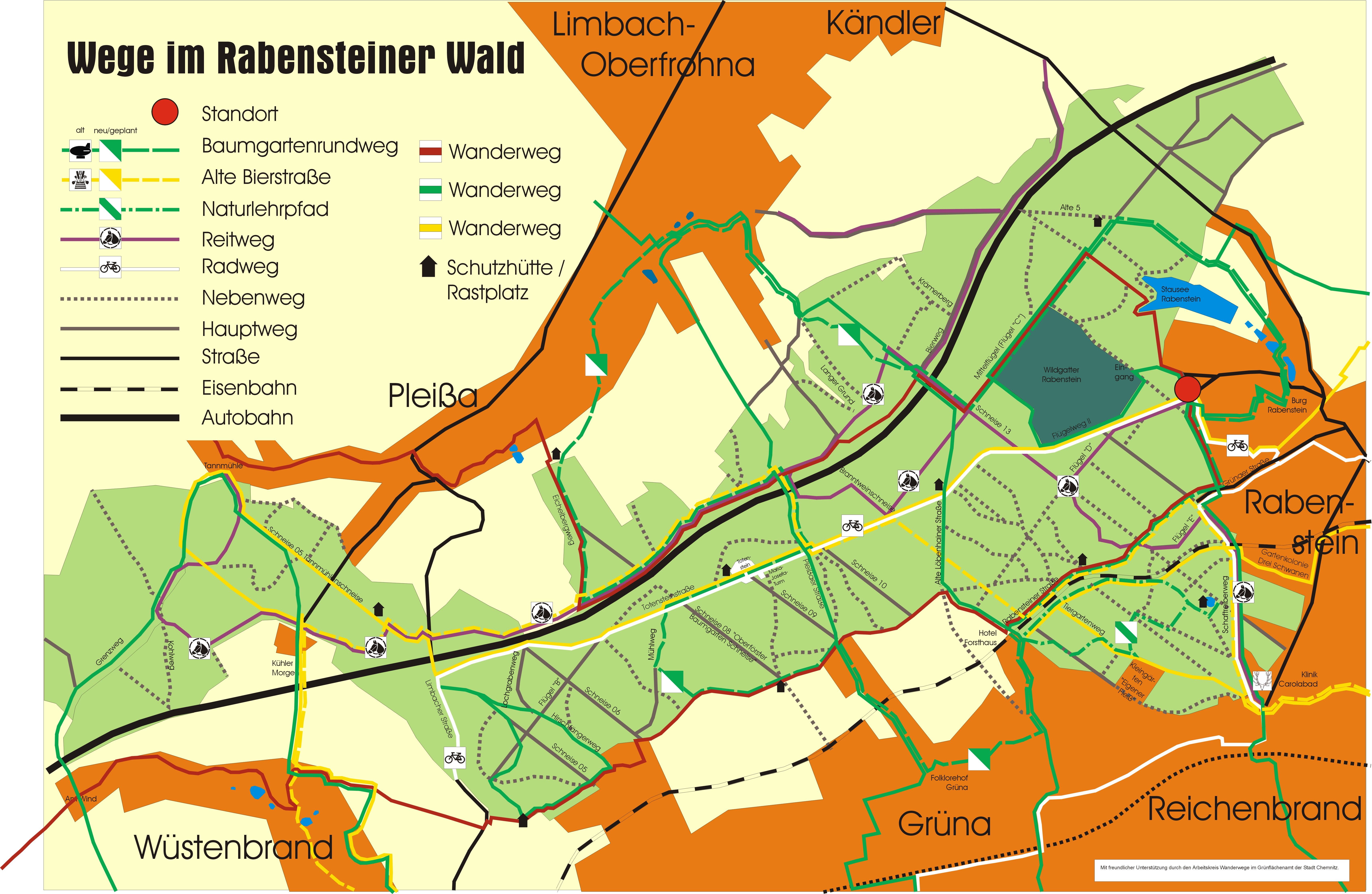 Trails into the forest of Rabenstein.